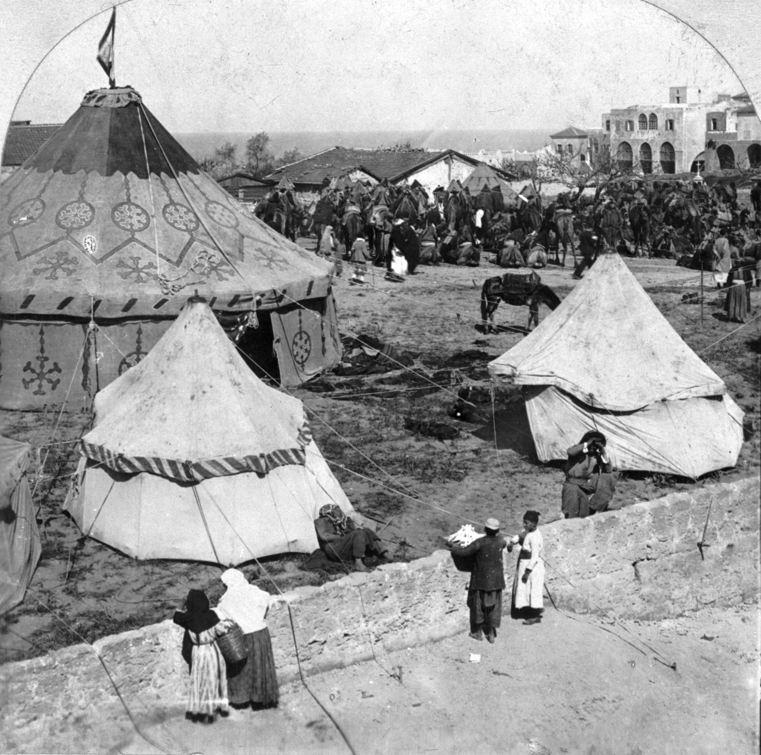 Spice merchants of Bag[h]dad, Company at Acre, Palestine. Published: New York: American Stereoscopic Company, manufacturers and publishers.